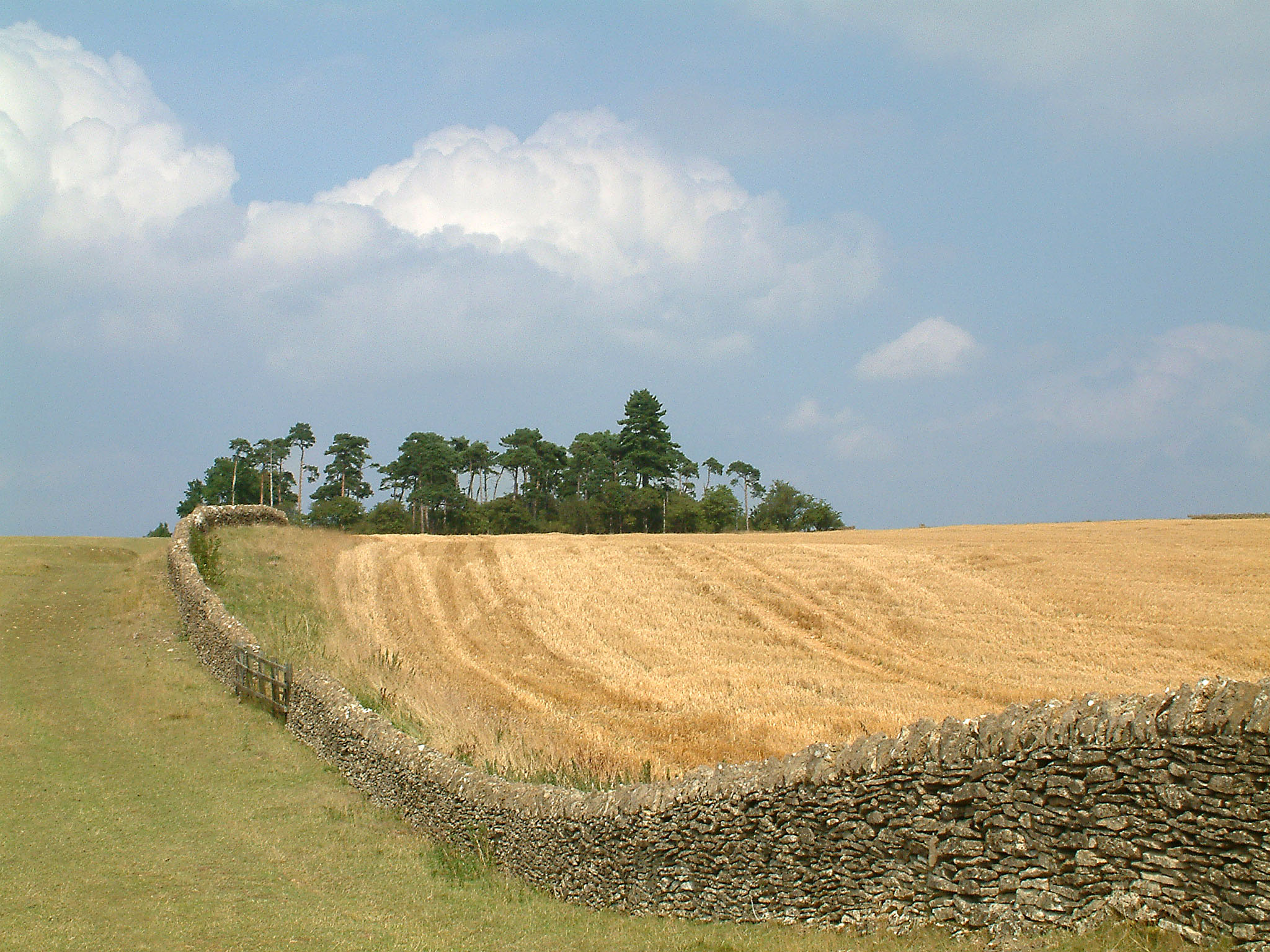 Oolitic limestone stone wall on Bredon Hill, Worcestershire. Photograph by Stephen Dawson, 24 August 2003.